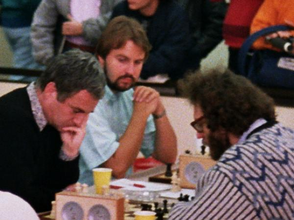 Sosonko, van der Wiel, Speelman, Chess Olympiad 1988 in Thessaloniki, Photographer Gerhard Hund.